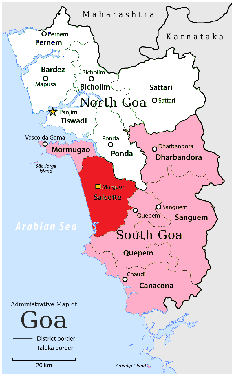 Salcette_taluka_in_South_Goa_district